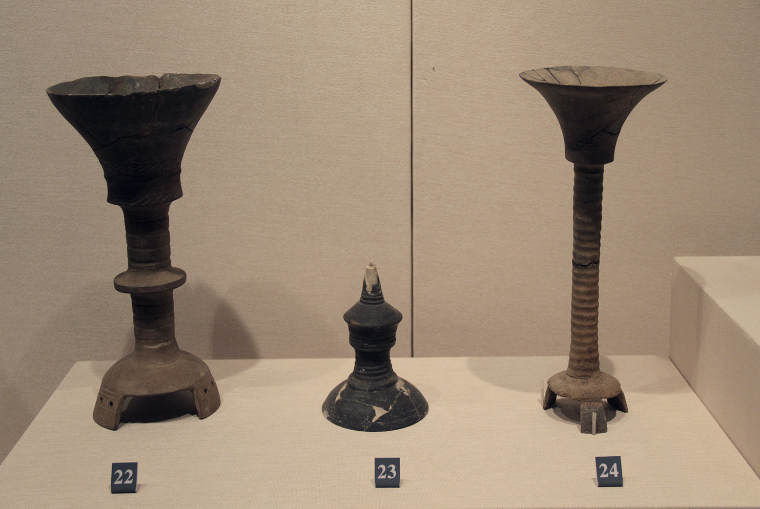 Dawenkou black pottery goblets. Shandong Provincial Museum, Jinan